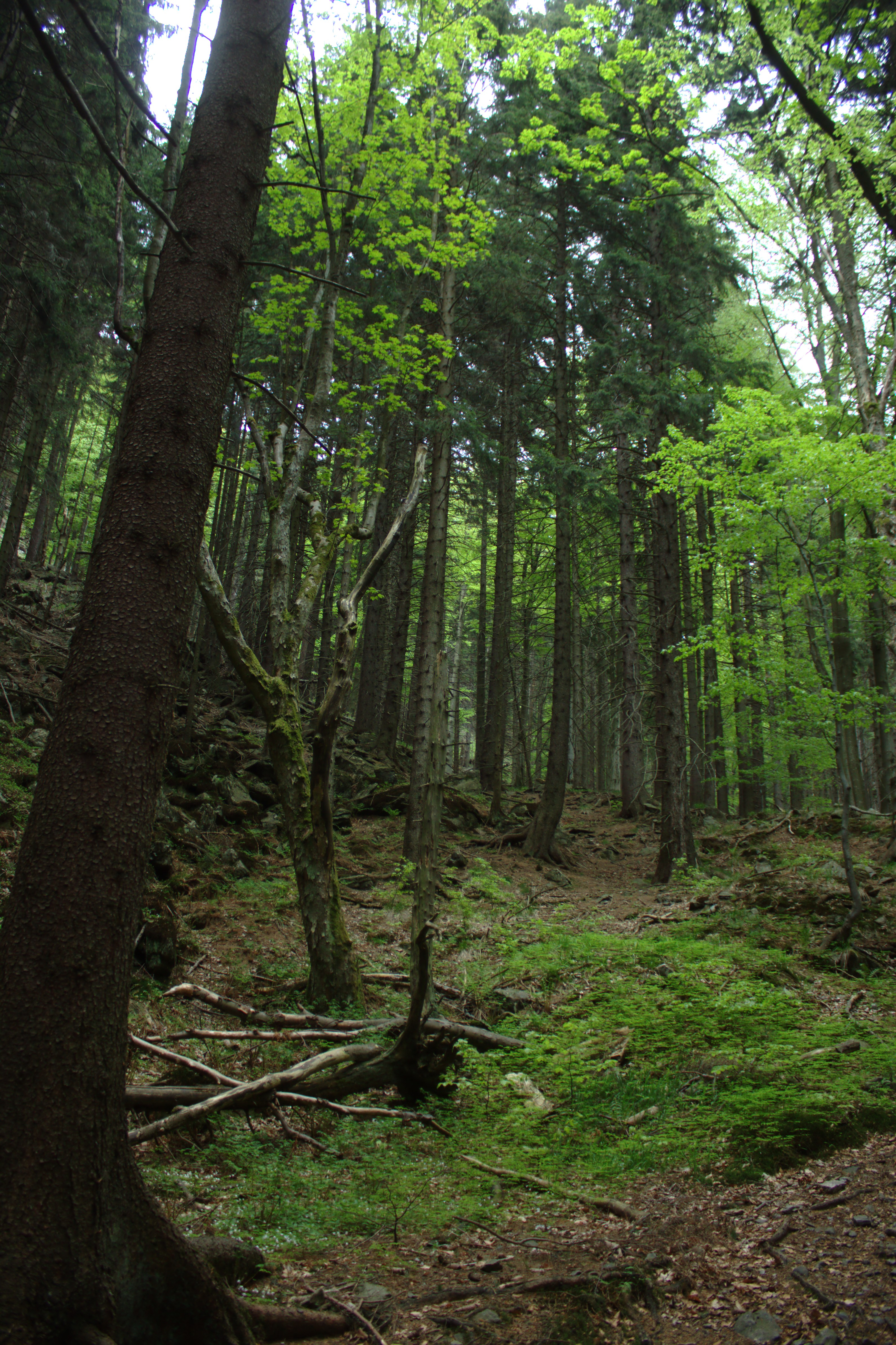 Forest in Divoký důl valley west from Praděd, Olomouc Region, CZ